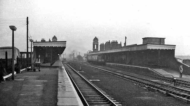 Bury St Edmunds Station. View eastward, towards Haughley and Ipswich; ex-Great Eastern, Ely, and Cambridge via Newmarket - Haughley - (Ipswich) secondary main line, junction of branches to Thetford (closed 8/6/53, goods 27/6/60) and to Long Melford (closed 14/4/61, goods 19/4/65).